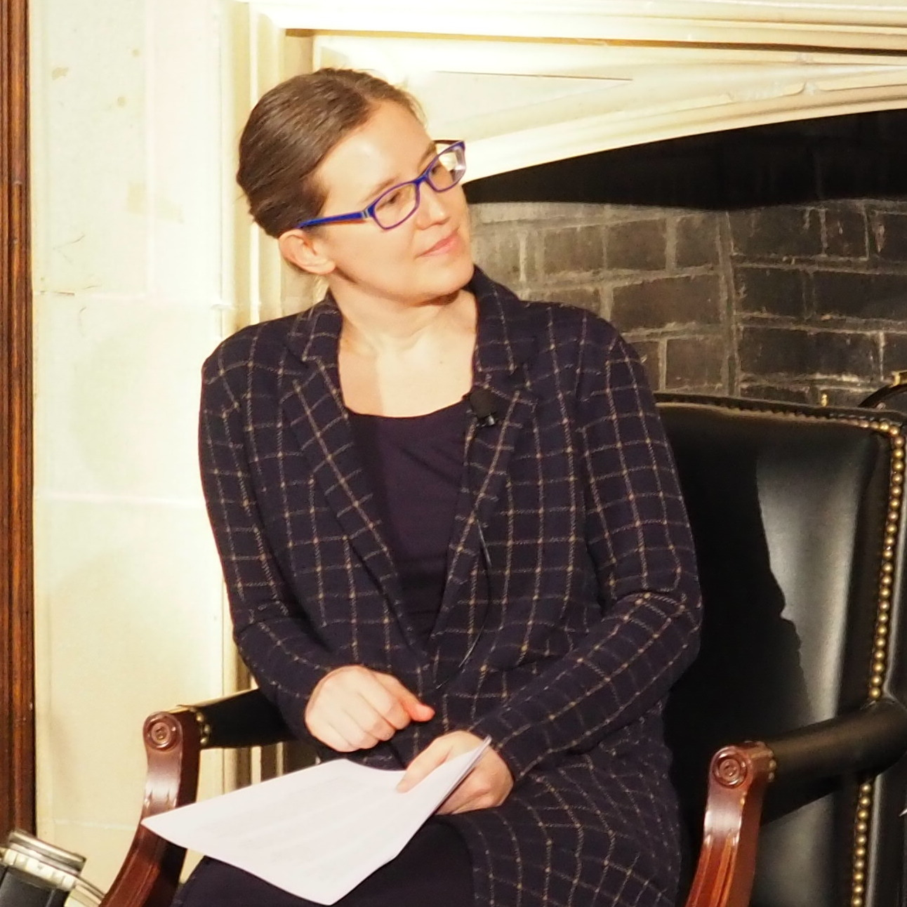 reading at Lannan Center, Georgetown University